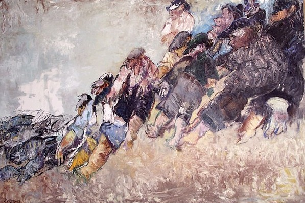 Pierre Kröger, fishermen on the beach from Nazare, 2013, Oil on canvas 130x195cm